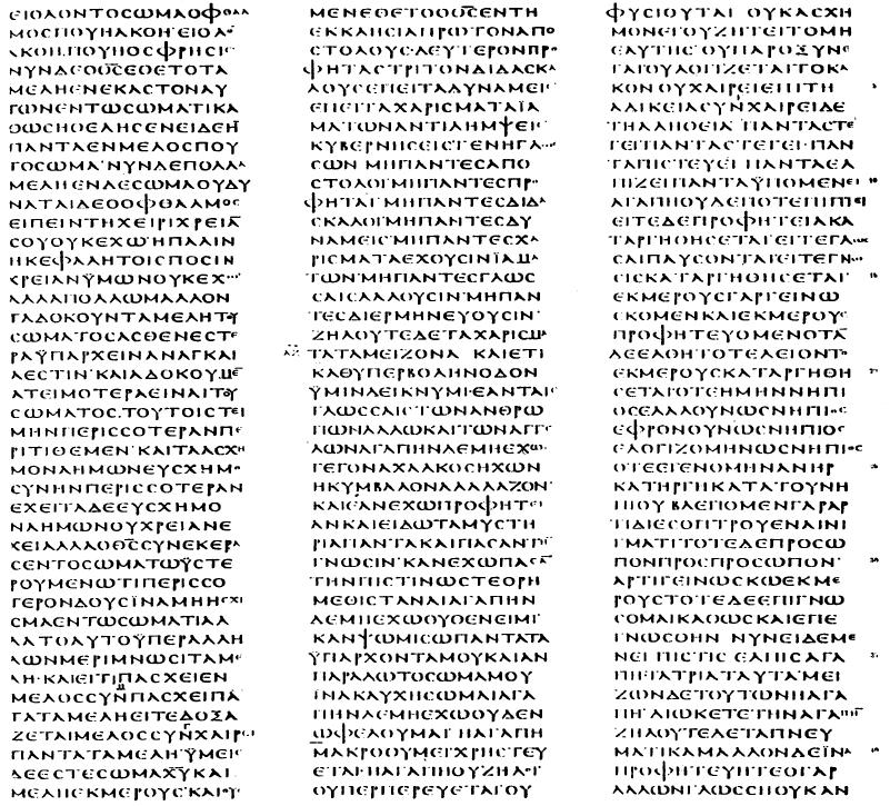 copy of 19th century photograph of 1 Corinthians 13 in Codex Vaticanus